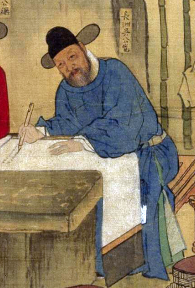 Wu Kuan, minister of the Ming Dynasty.